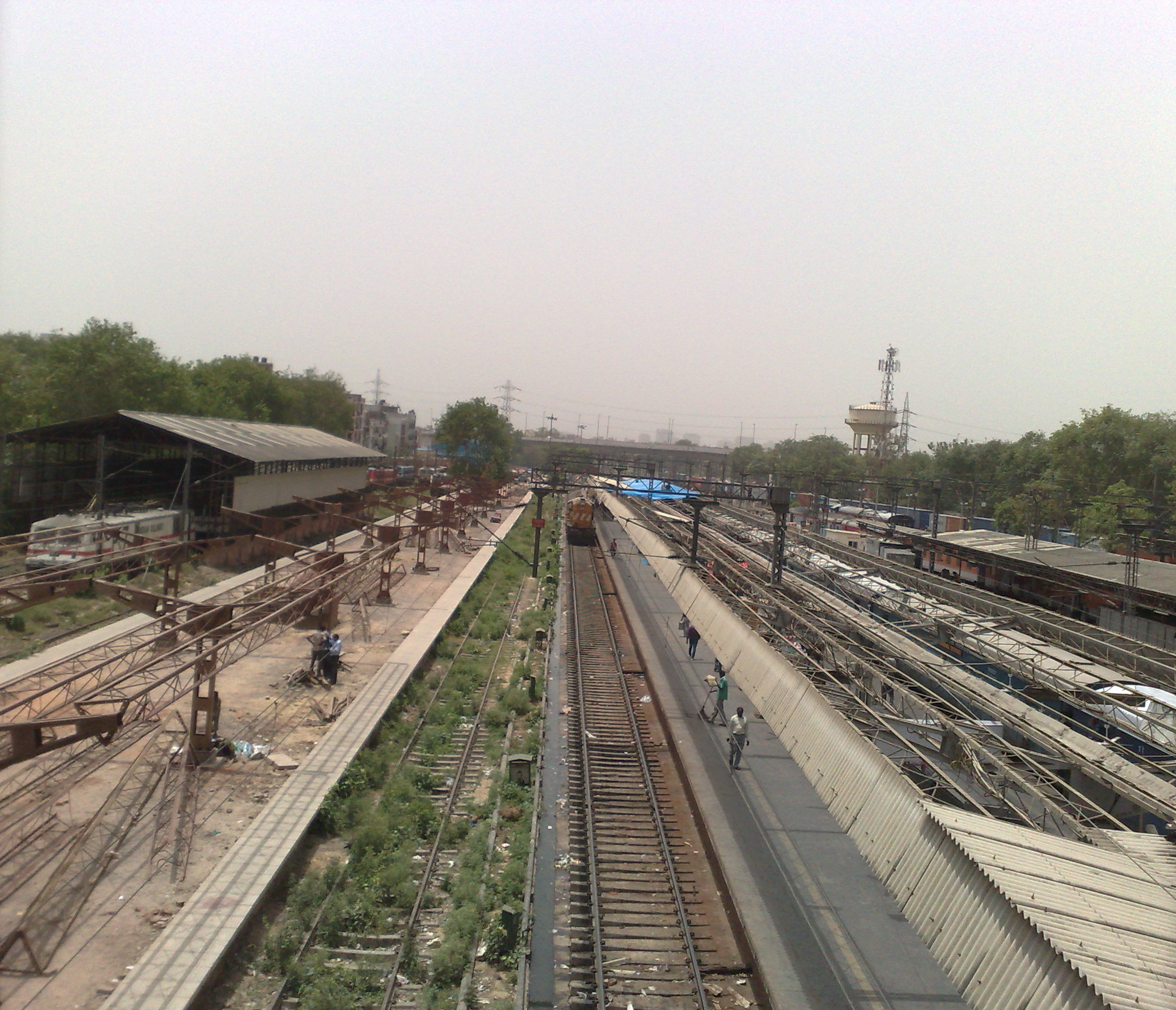 Platform 8 & 9 under construction at Hazrat Nizamuddin